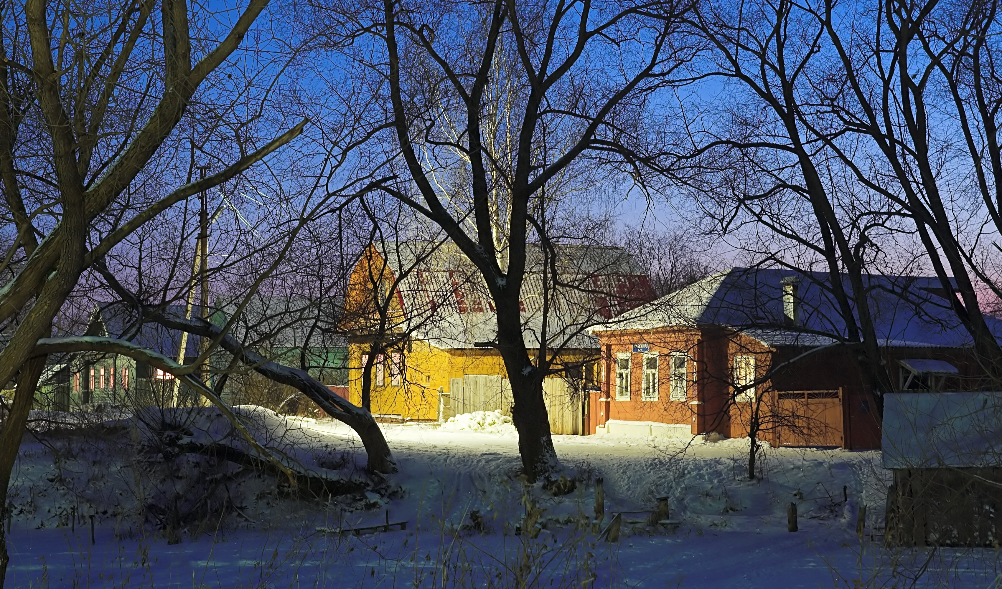 Pereslavl, Trubej street near the river